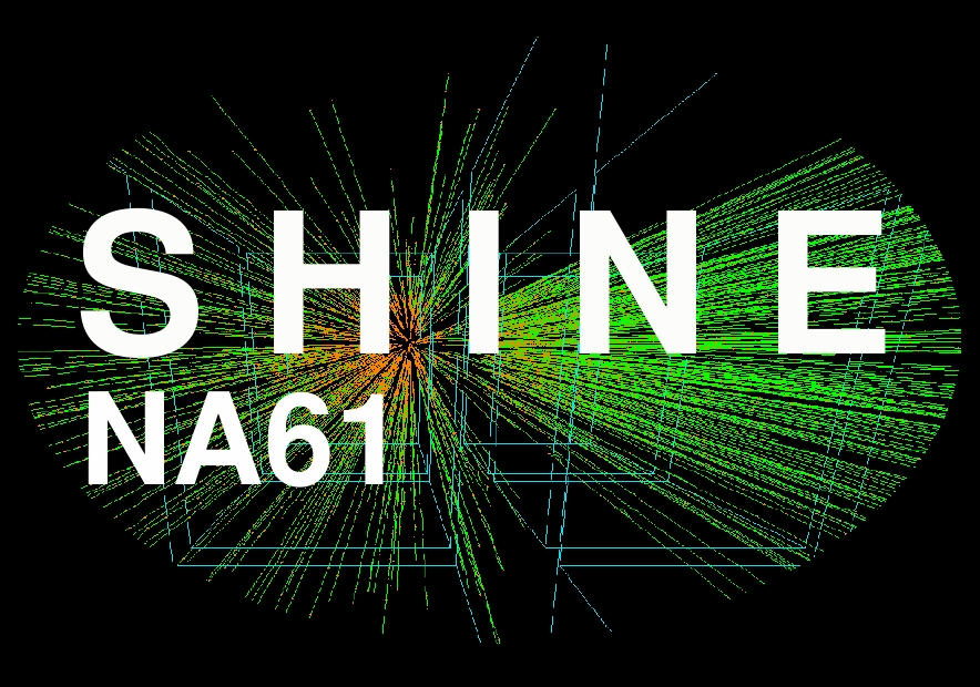 NA61/SHINE experiment logo